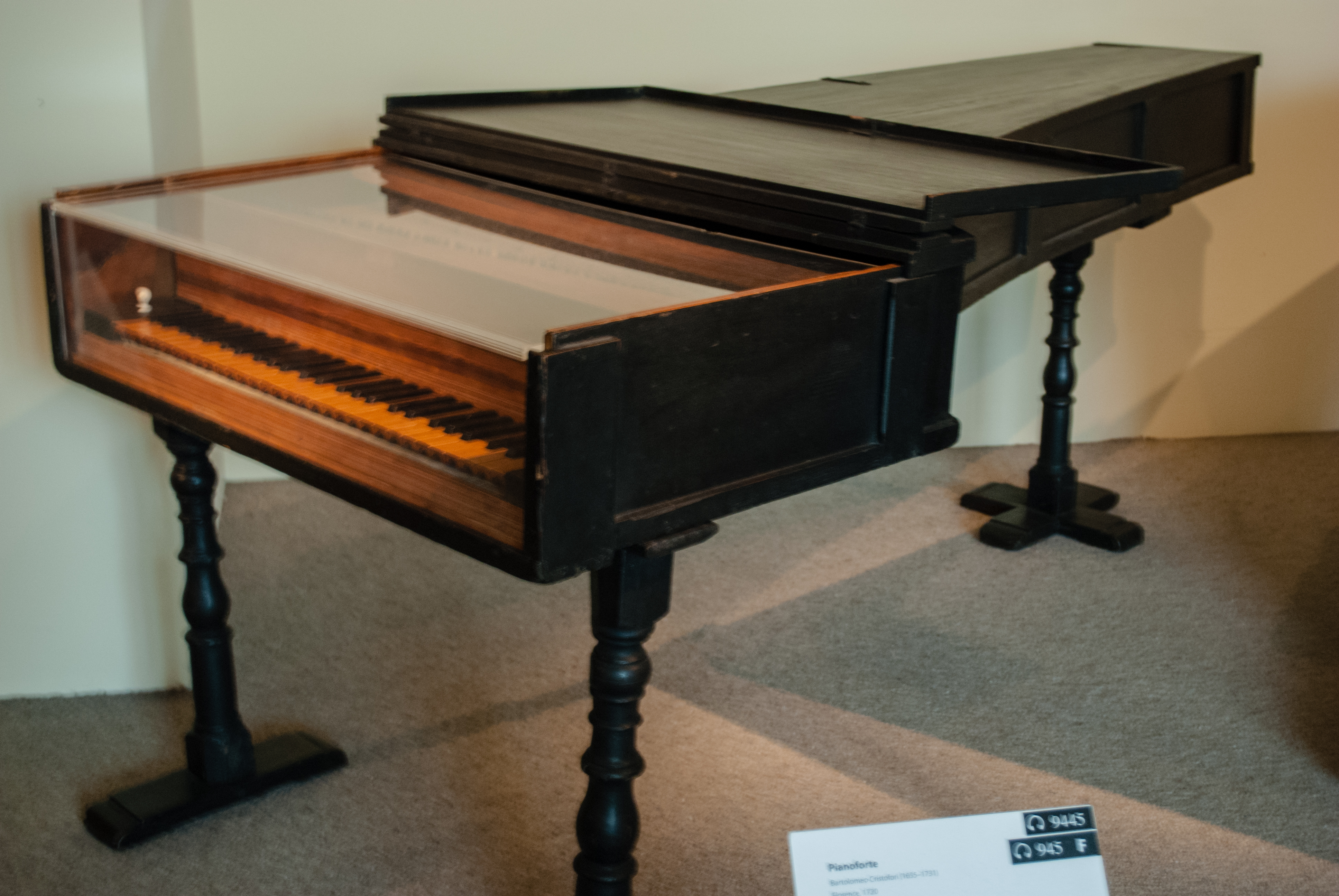 Pianoforte (Florence, 1720) by Bartolomeo Cristofori (1655-1731) "An early (1700s I think) model of a piano. Only 4 pianos of this type were made." Grand Piano - Bartolomeo Cristofori Date: 1720 Geography: Florence, Italy Medium: Various materials Dimensions: Case length (perpendicular to keyboard) 228.6 cm, Width (parallel to keyboard) 95.6 cm, Case depth without lid 23.5 cm, Total height 86.5 cm, 3-octave span 49.6 cm, L. of longest string 188.6 cm, L. of shortest string 12.0 cm, L. of c2 27.9 cm Classification: Chordophone-Zither Credit Line: The Crosby Brown Collection of Musical Instruments, 1889 Accession Number: 89.4.1219 Description: “Bartolomeo Cristofori was the first person to create a successful hammer-action keyboard instrument and, accordingly, deserves to be credited as the inventor of the piano. This example is the oldest of the three extant pianos by Cristofori. About 1700 he began to work on an instrument on which the player could achieve changes in loudness solely by changing the force with which the keys were struck. By 1700 he had made at least one successful instrument, which he called "gravicembalo col piano e forte" (harpsichord with soft and loud). His instrument still generally resembles a harpsichord, though its case is thicker and the quill mechanism has been replaced by a hammer mechanism. Cristofori's hammer mechanism is so well designed and made that no other of comparable sensitivity and reliability was devised for another seventy-five years. In fact, the highly complex action of the modern piano may be traced directly to his original conception.”